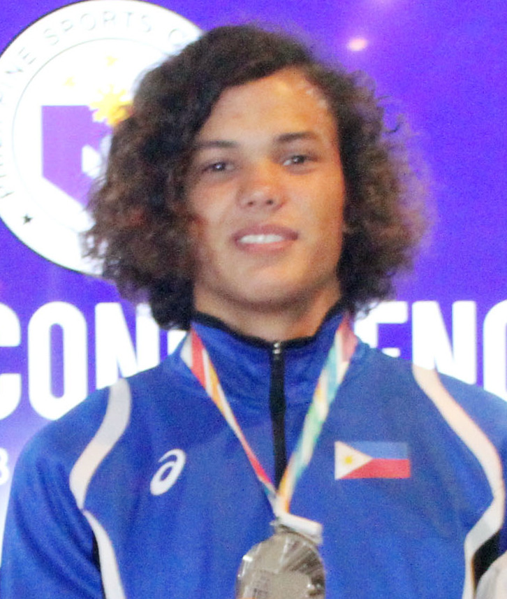 Filipino-Norwegian Christian Tio (middle) shows his Youth Olympic Games silver medal in kiteboarding in a press conference organized by the Philippine Sports Commission at the Rizal Memorial Sports Complex on Monday (Oct. 22, 2018). From left, are: Philippine Team chef de mission Jonne Go; PSC Commissioner Celia Kiram; PSC Commissioner Arnold Agustin’ and Tio's mother, Liezl Mohn.